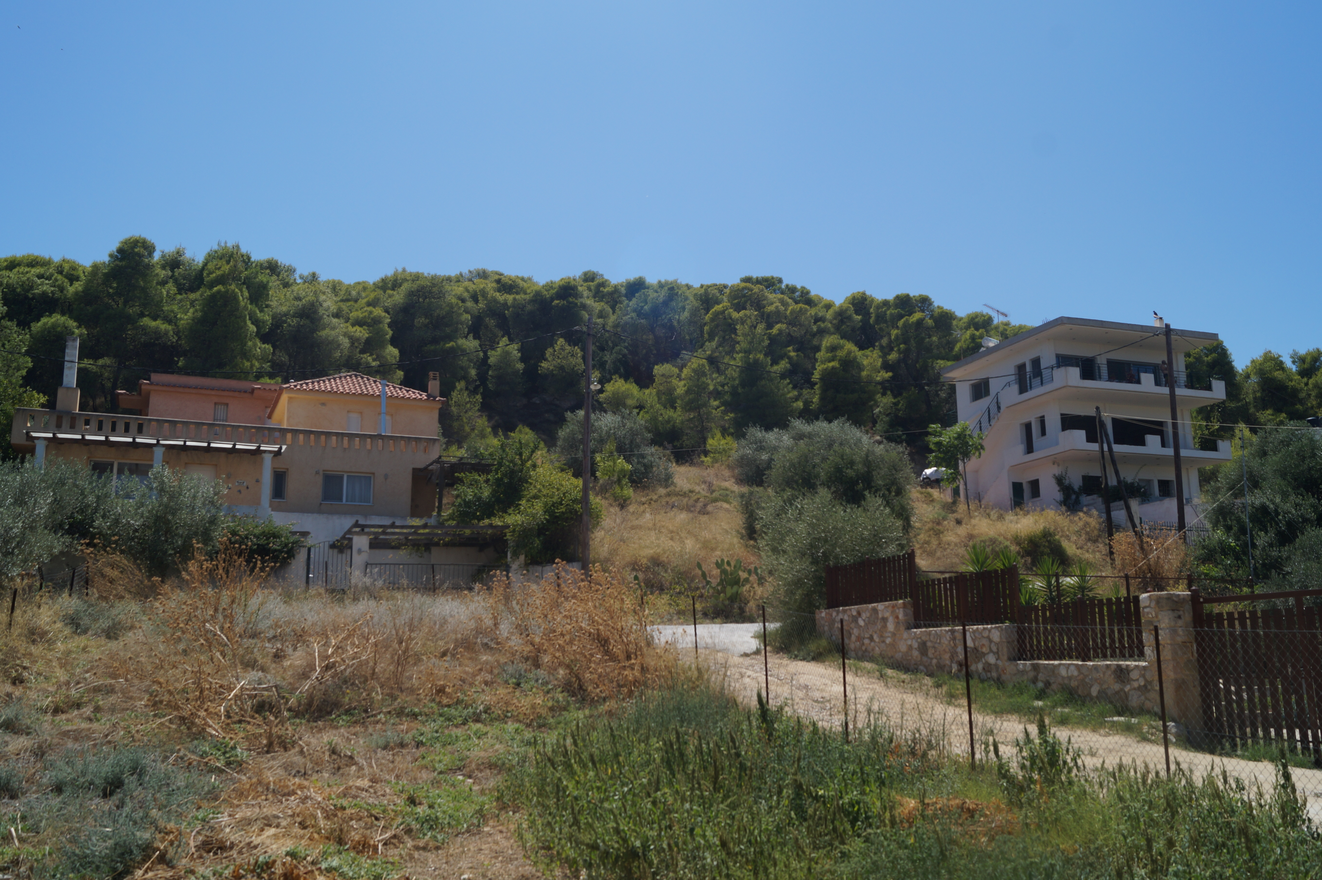 Kato Almyri, Corinthia, Greece: View from north on the slope of Bechri hill. Between the two houses is chamber tomb XXI of the mycenaean cemetery of Kato Almyri. Behind in the forrest there are the other tombs.